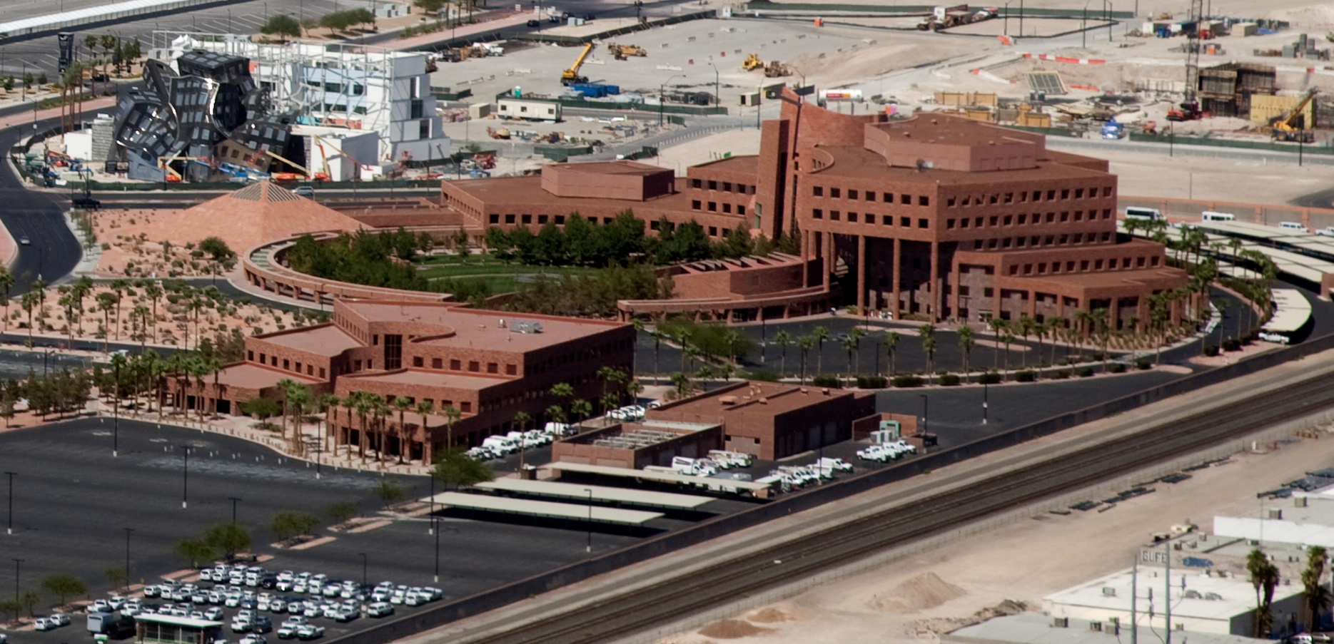 Aerial view of the Clark County Government Center — in Downtown Las Vegas, Clark County, Nevada. The Frank Gehry designed Lou Ruvo Center for Brain Health is in the background.